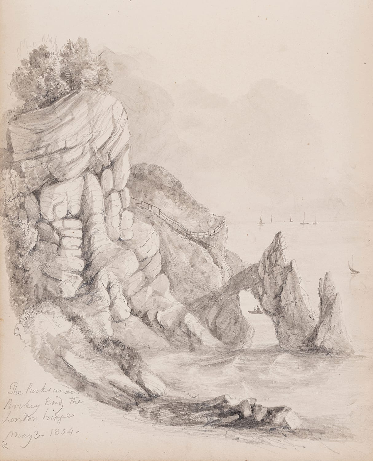 The Rocks under Rocky End the London Bridge - Page from 'Sketches by Richenda Cunningham at Torquay & its neighbourhood in April & May 1854, Vol.1.' Offered for sale by Abbott and Holder in March 2020 when it was described as one of "37 drawings and watercolour including views of Torquay (10), Teignmouth (4), Babbicombe (2), Watcombe (5), Ansteys Cove (3), Paignton (1), Cockington (2), Chelstone, (2) and eight others all inscribed and dated." Richenda Gurney was also known as Mrs Francis Cunningham. For dates and locations, see the index page: File:Gurney-Index.jpg